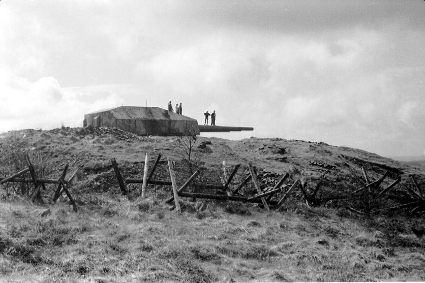 The "Bruno" turret from German battlecruiser Gneisenau with its 3 28-cm guns, at Fjell fortress, Fjell municipality, Sotra island, Hordaland county, Norway.